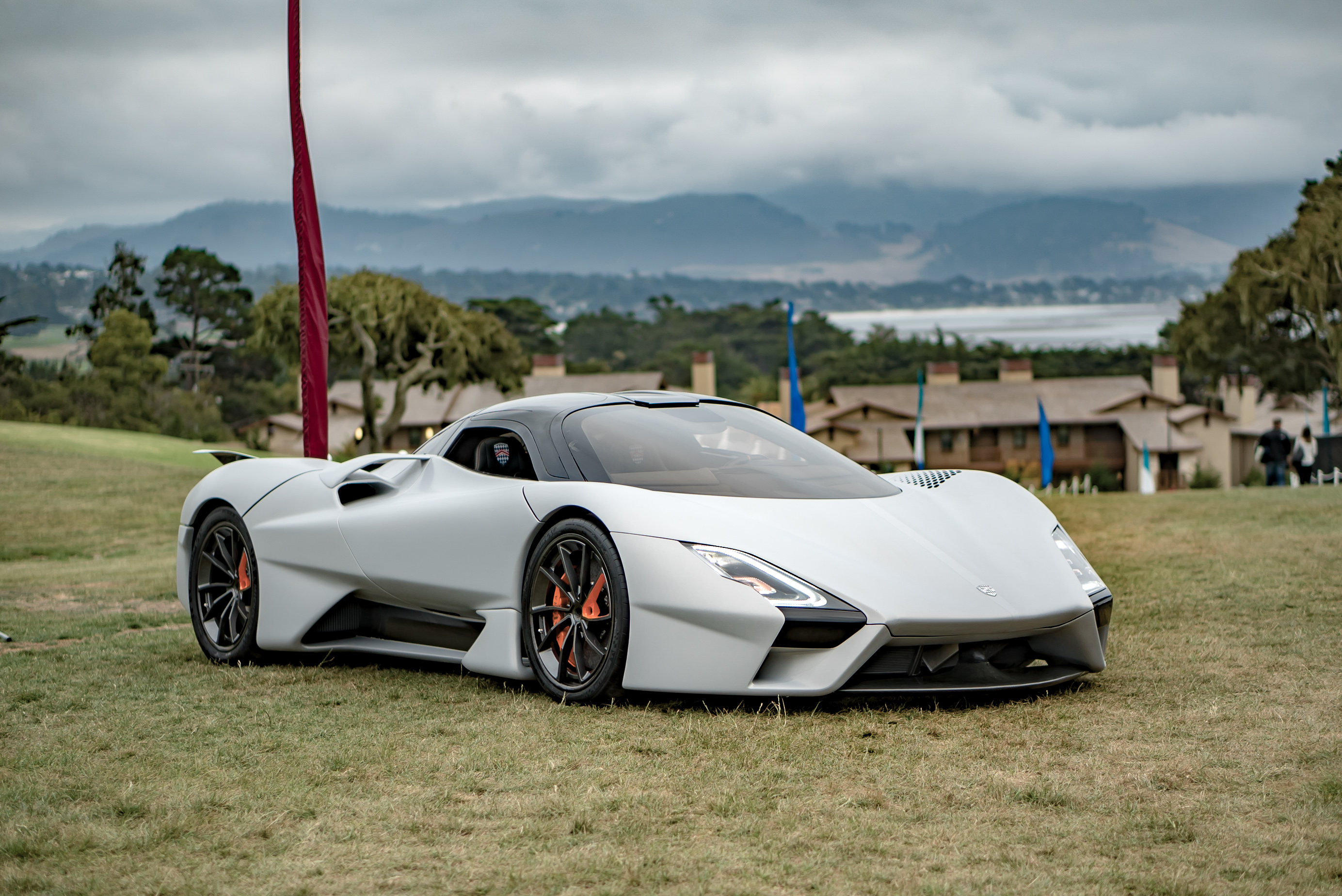 The 2019 SSC Tuatara prototype at Pebble Beach